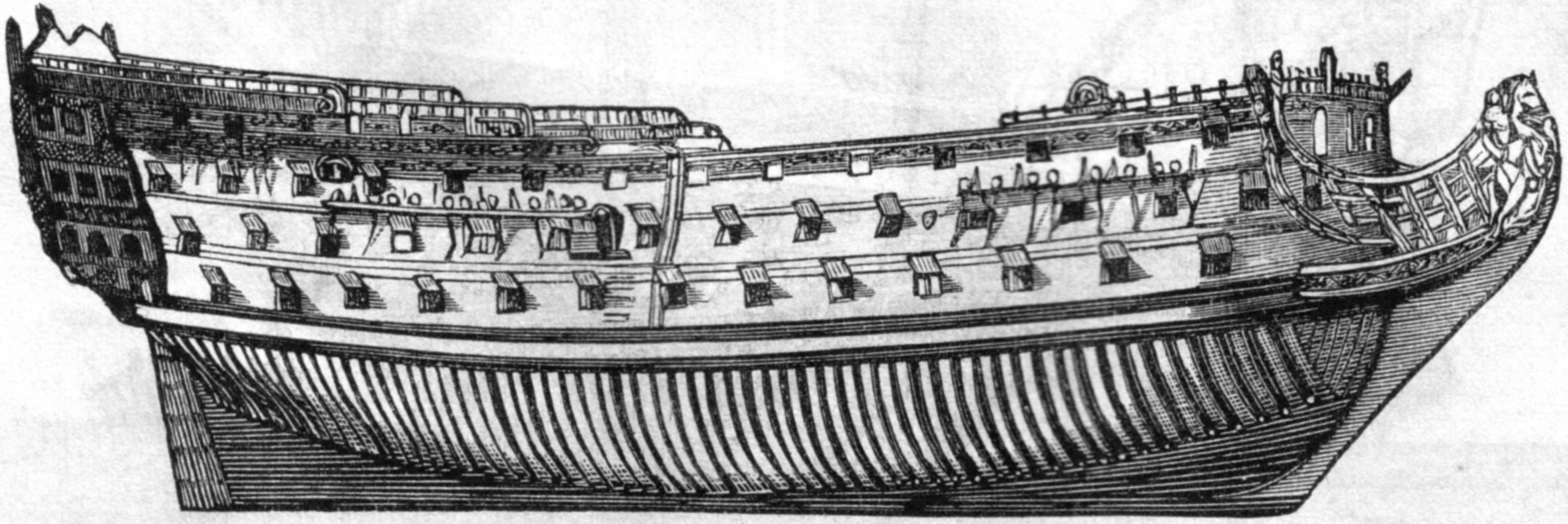 Engraving of the HMS Royal George.